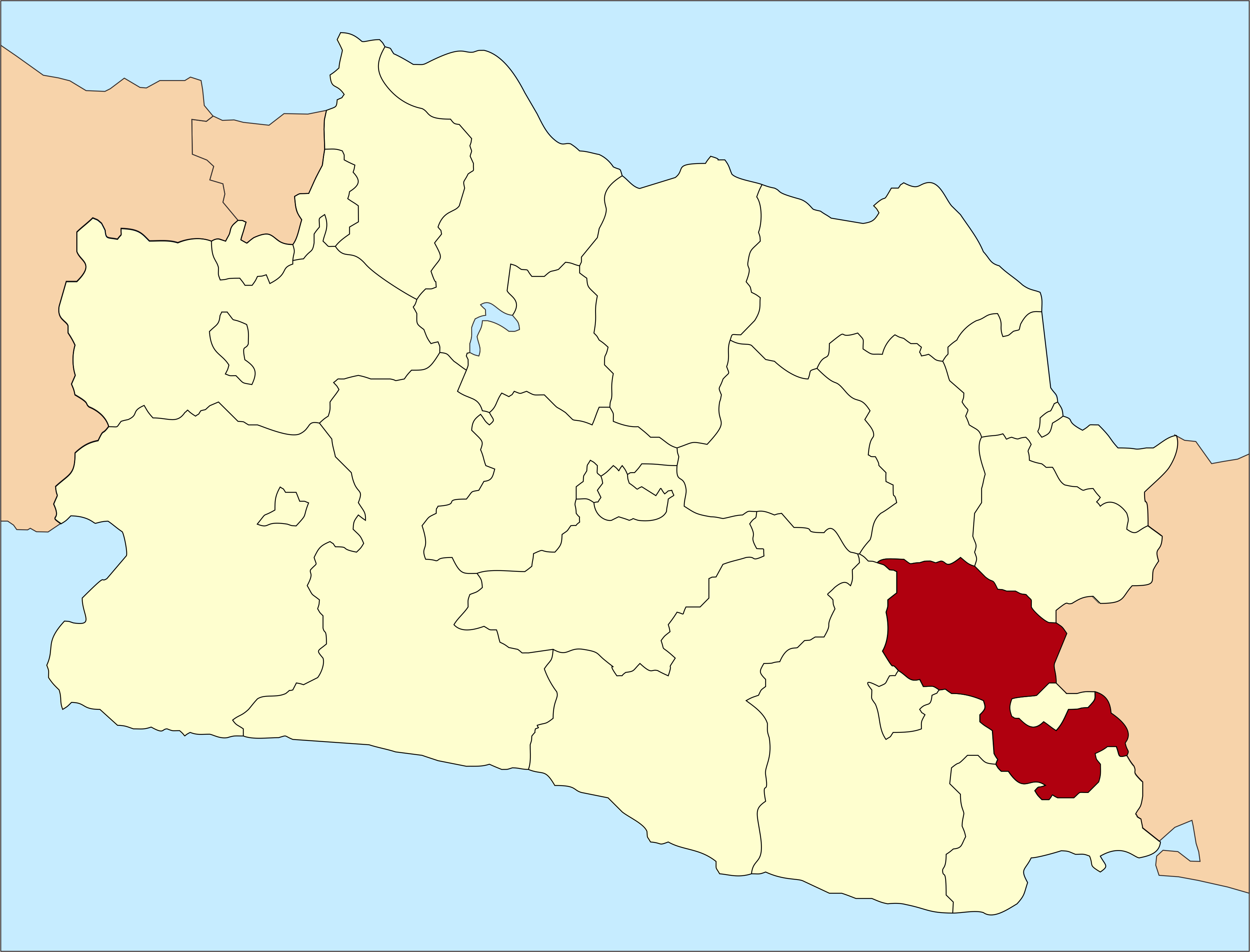 Location of Ciamis Regency in West Java Province.